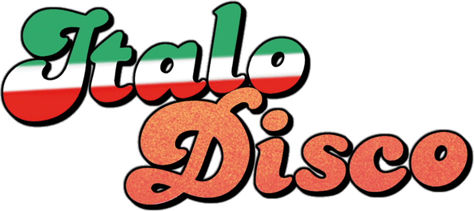 Итало диско